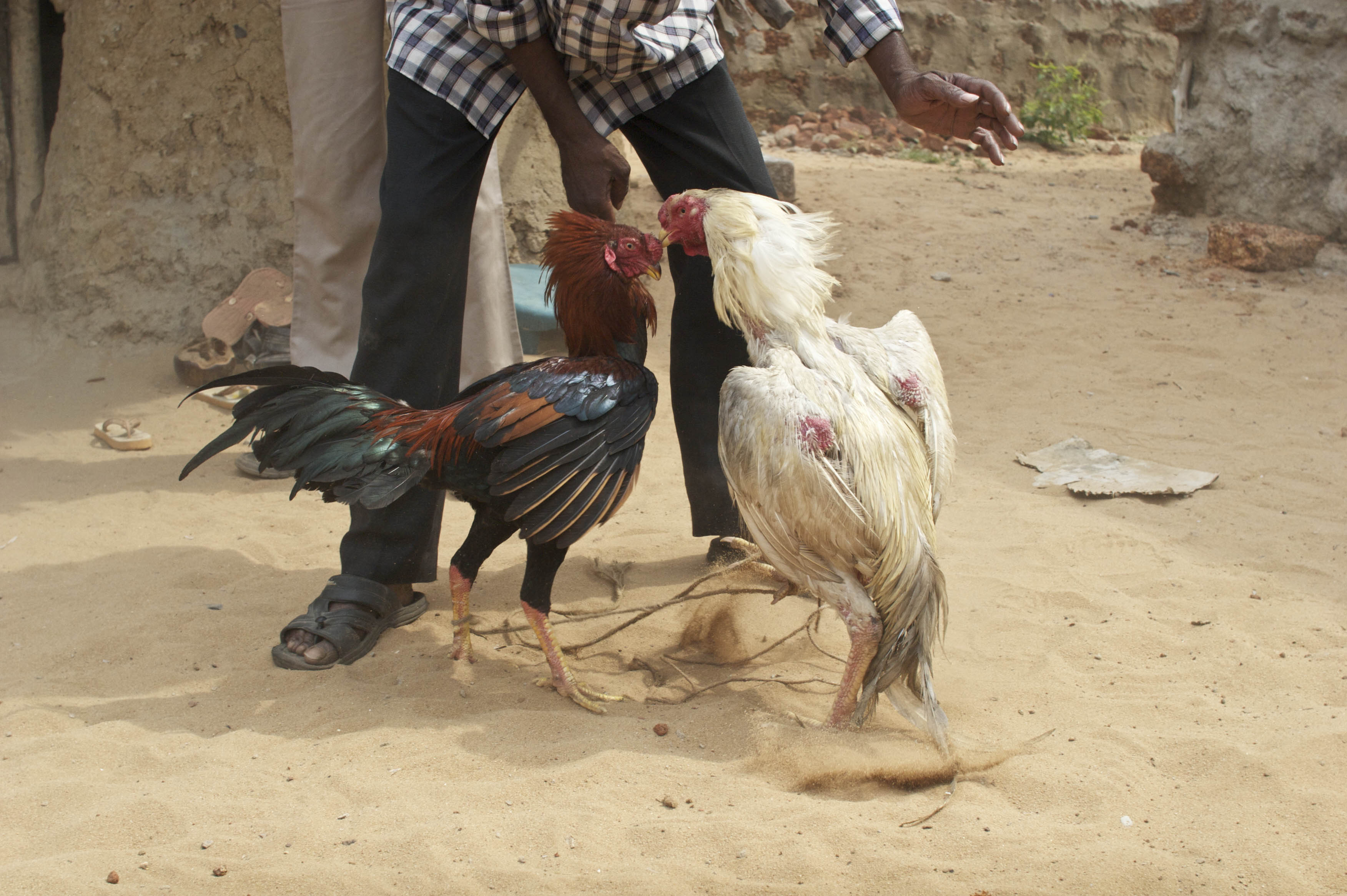 A cockfight in India, with handler.